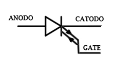 GTO